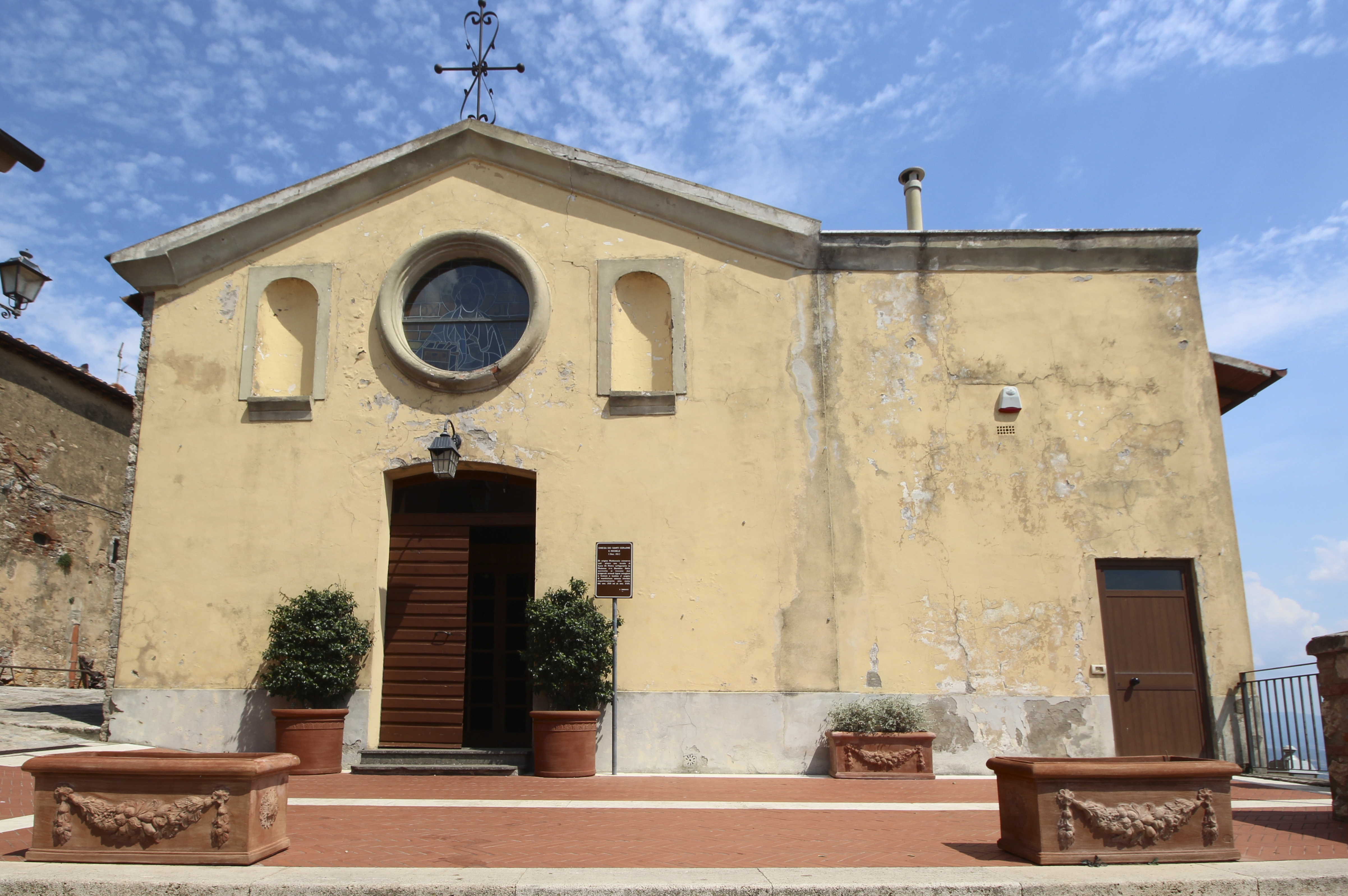 church Santi Cerbone e Michele, Montorsaio, hamlet of Campagnatico, Province of Grosseto, Tuscany, Italy